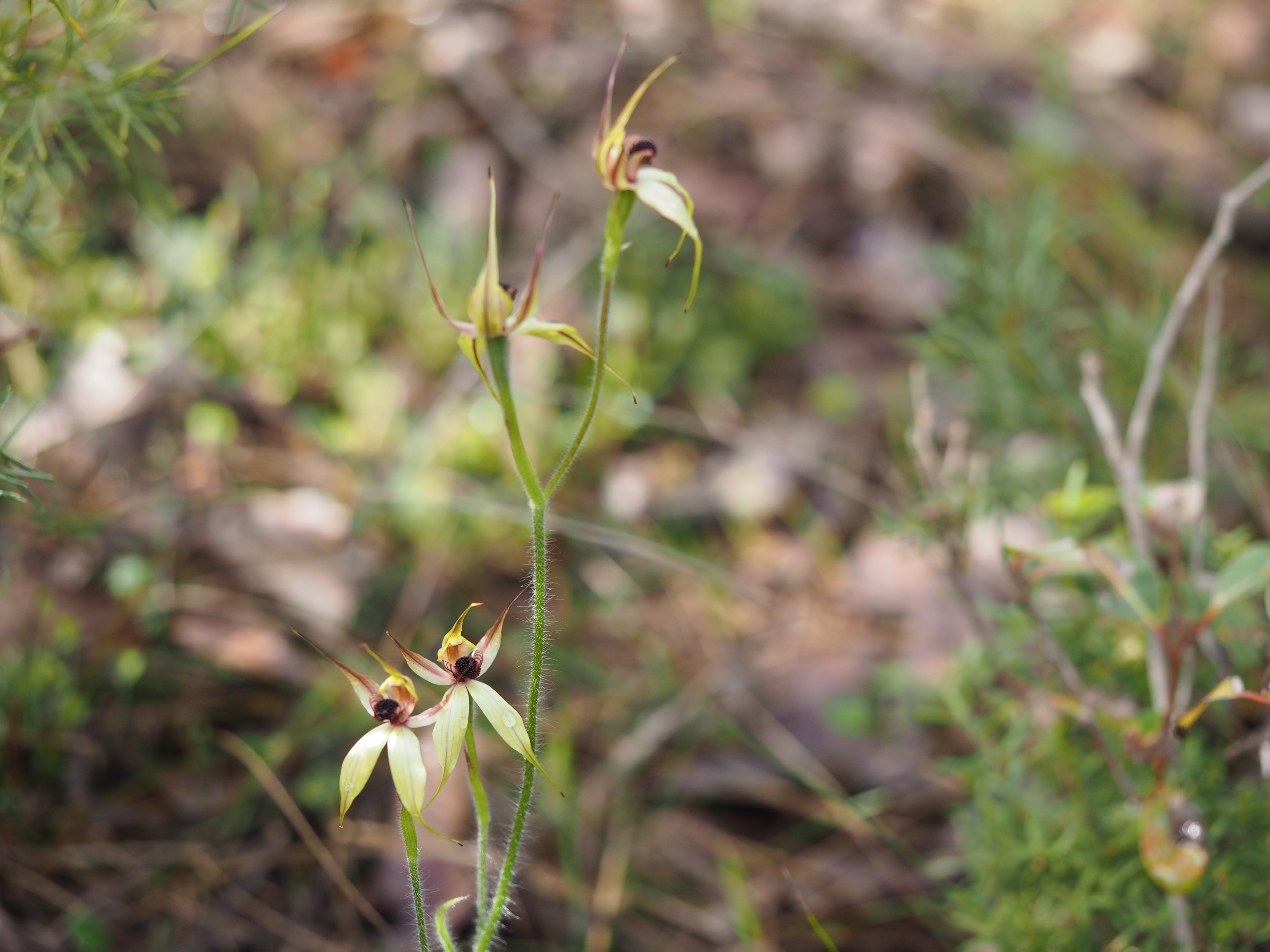 Caladenia macrostylis growing on Westbourne Road near Boyup Brook